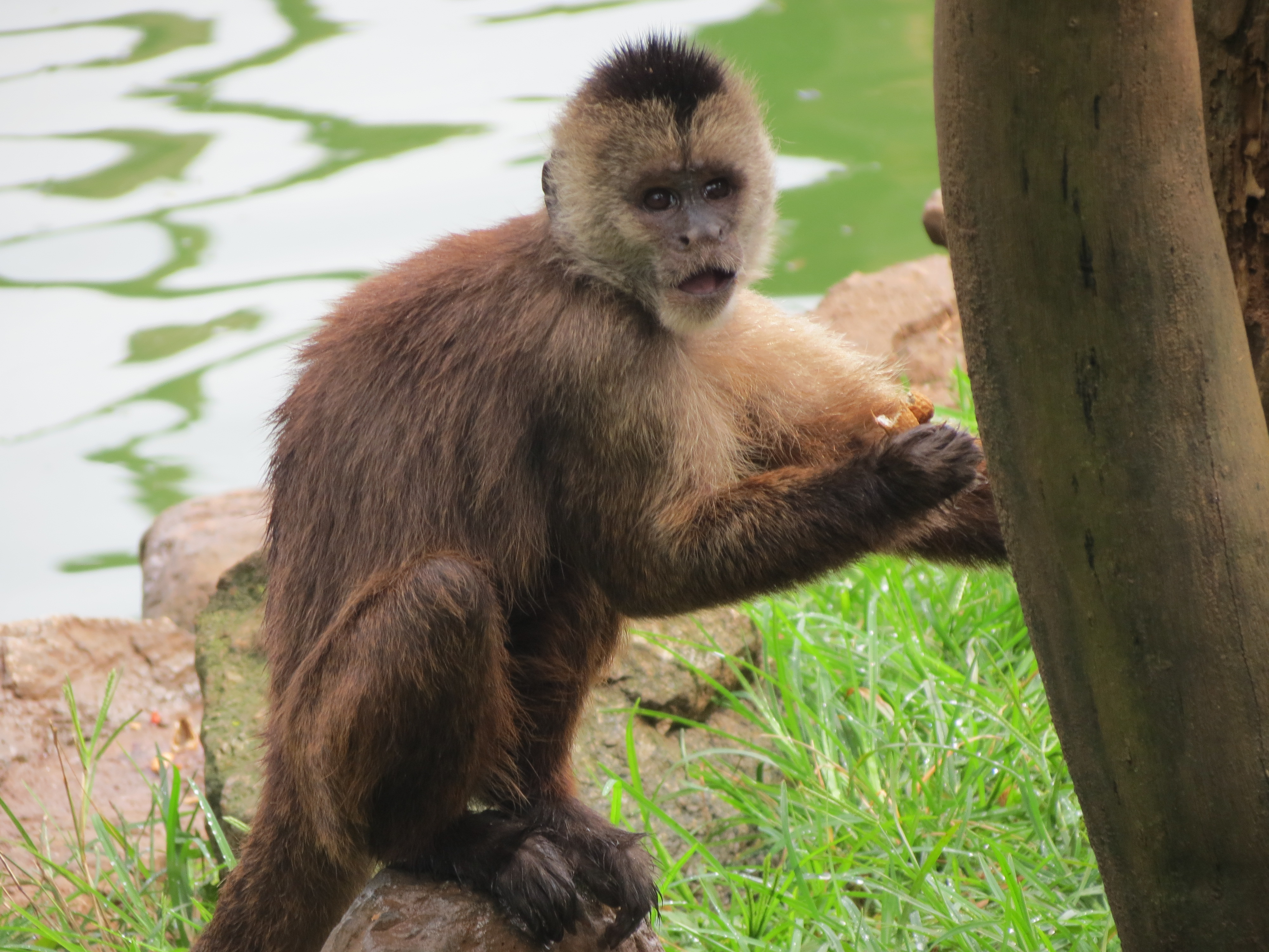 Cebus olivaceus in São Paulo Zoo.